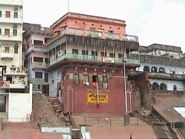 See Varanasi Development Cooperation Handbook/Stories/Responsible Development - Varanasi The Varanasi Heritage Dossier Kautilya Society Play media Vrinda Dar - How we got involved in heritage protection of Varanasi